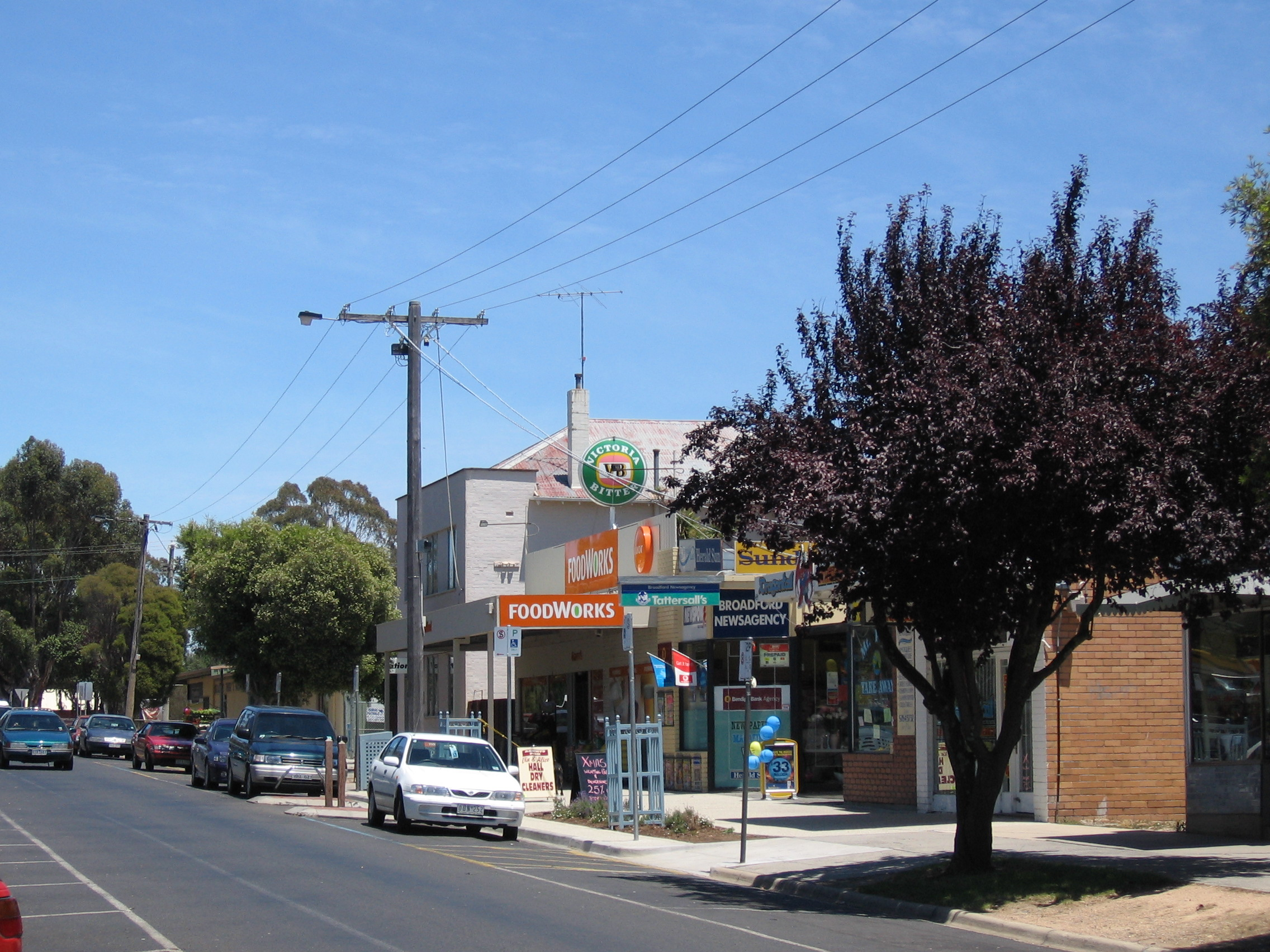 Streetscape, Broadford, Victoria.